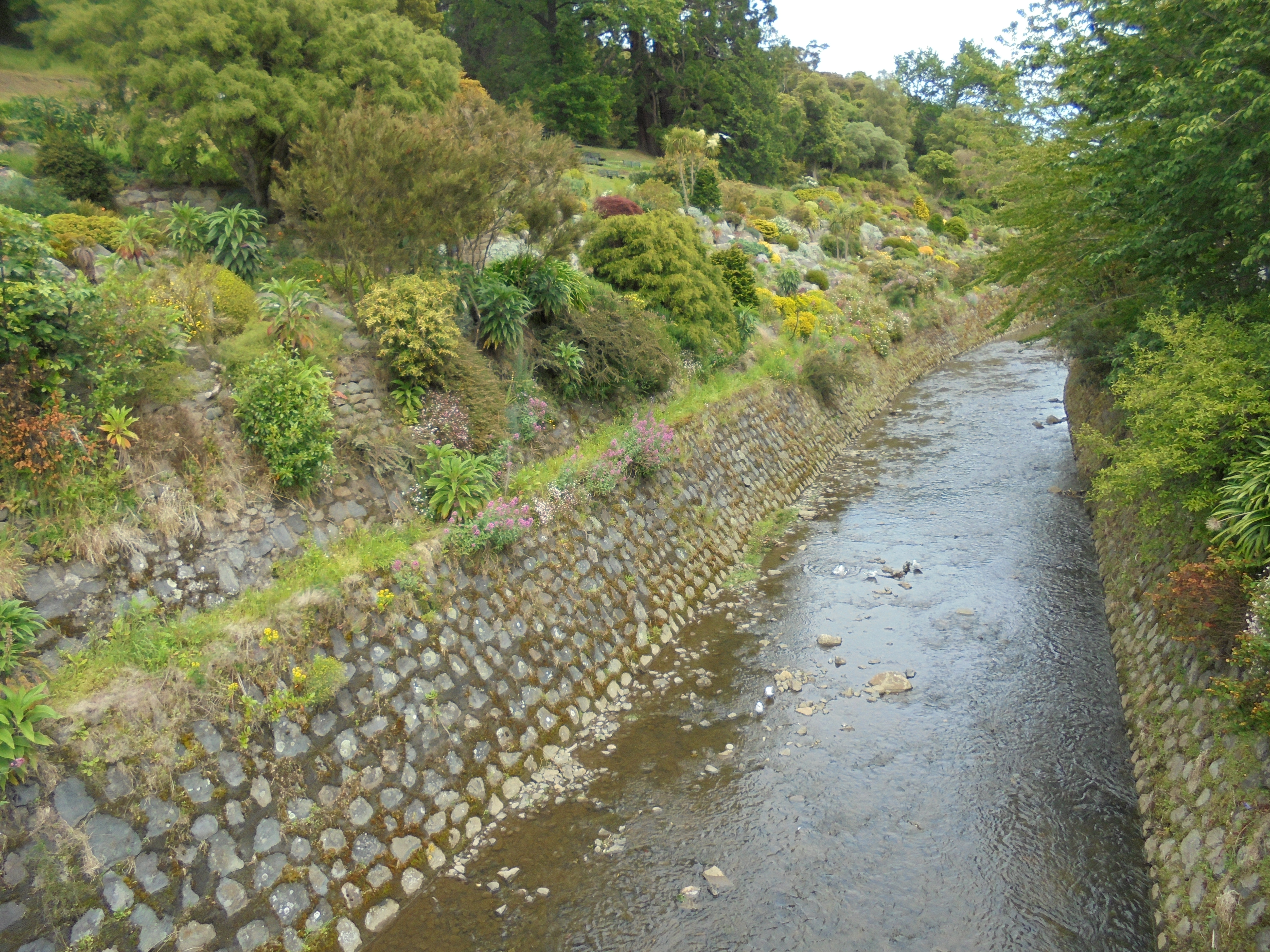 A stretch of Lindsay Creek flowing between the Lower and Upper Gardens of Dunedin's Botanic Garden, approximately 150m upstream of its confluence with the Water of Leith